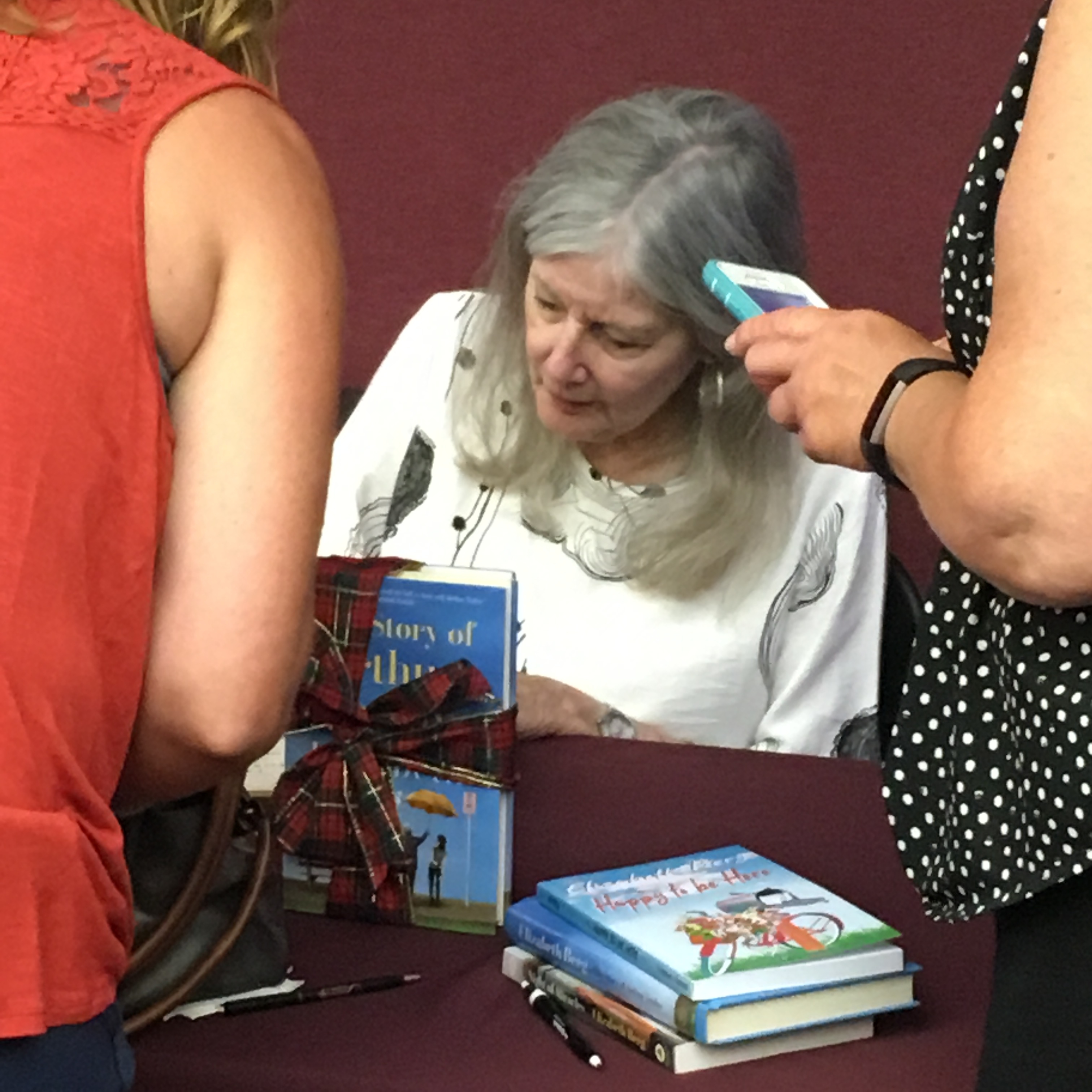 Elizabeth Berg, Author, at book talk at Plymouth District Library, in Plymouth MI